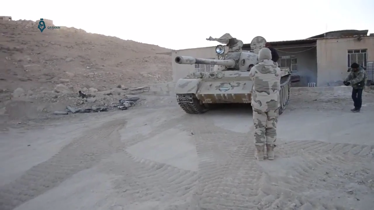 A T-55 operated by the Free Syrian Army in the eastern Qalamoun Mountains